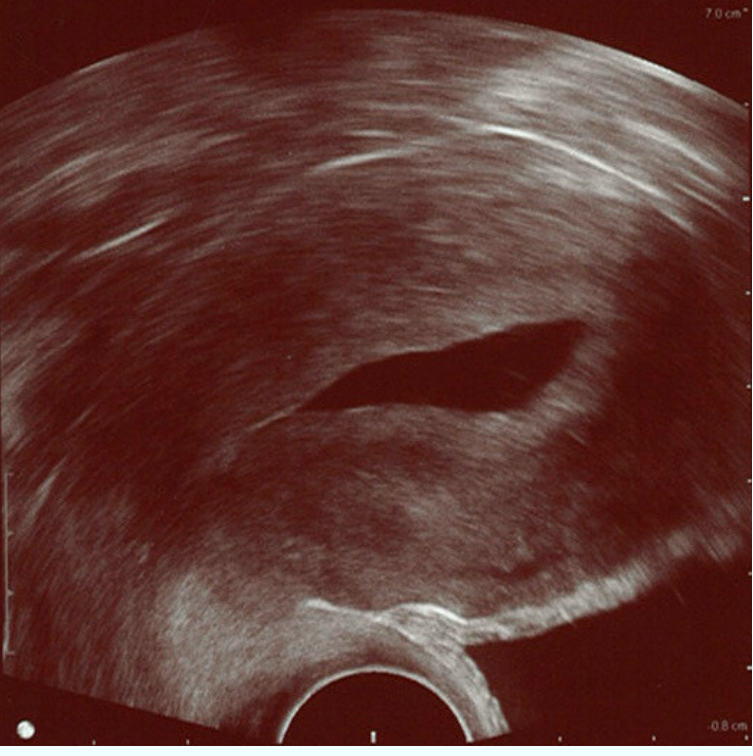 Sonohysterography taken on a 41 year old woman because of metrorrhagia. The sterile saline instilled into the cavity of the uterus is anechoic (rendered as dark in the middle of the image). It shows a normal endometrium as a hyperechoid (brighter) band around the cavity, in this case without any focal changes. The endometrium is, in turn, surrounded by the uterine wall which stretches almost to the right border of the image. The urinary bladder is visible at bottom right, which is anteriorly in the body.